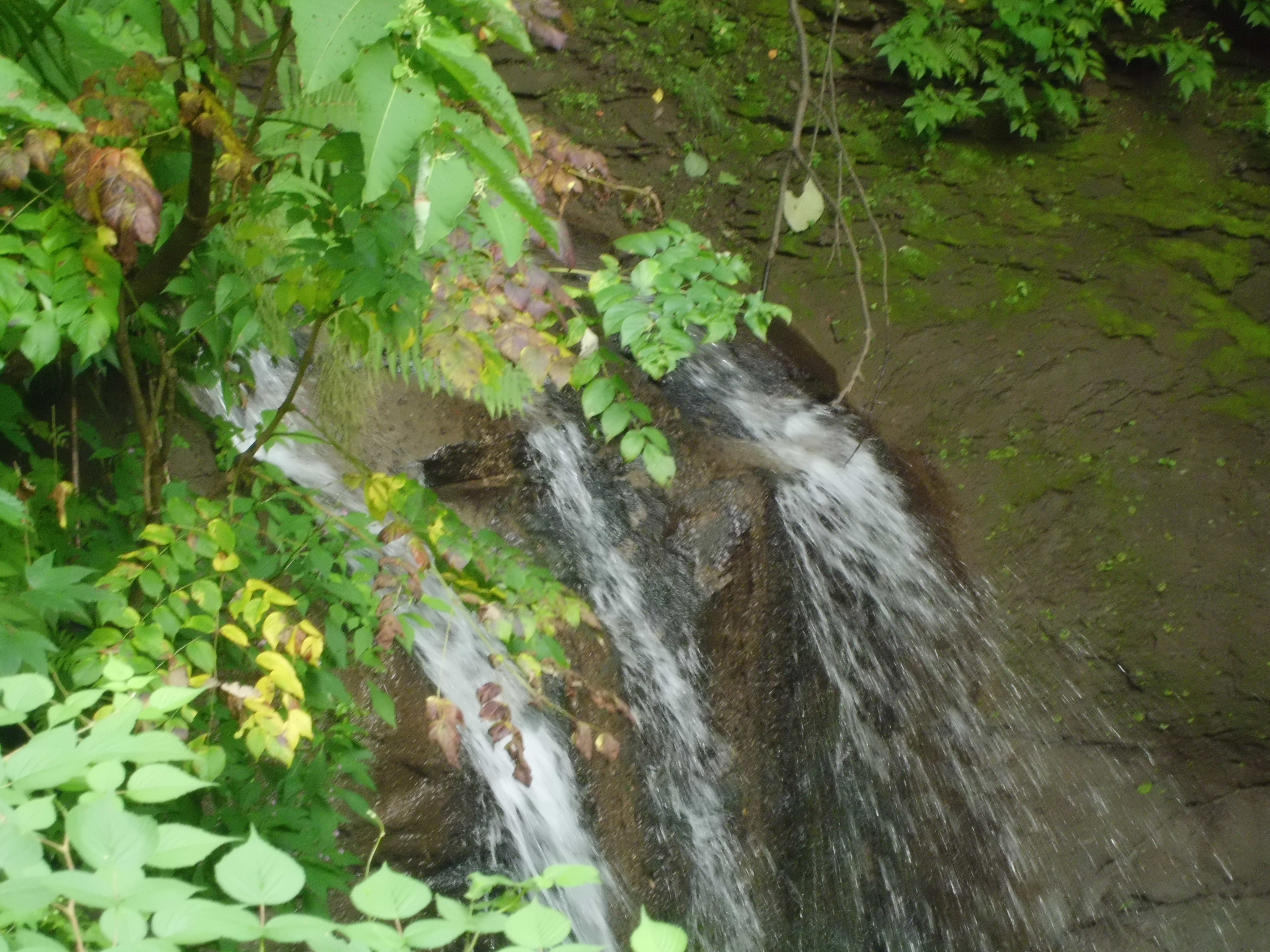 Little Ariake Fall